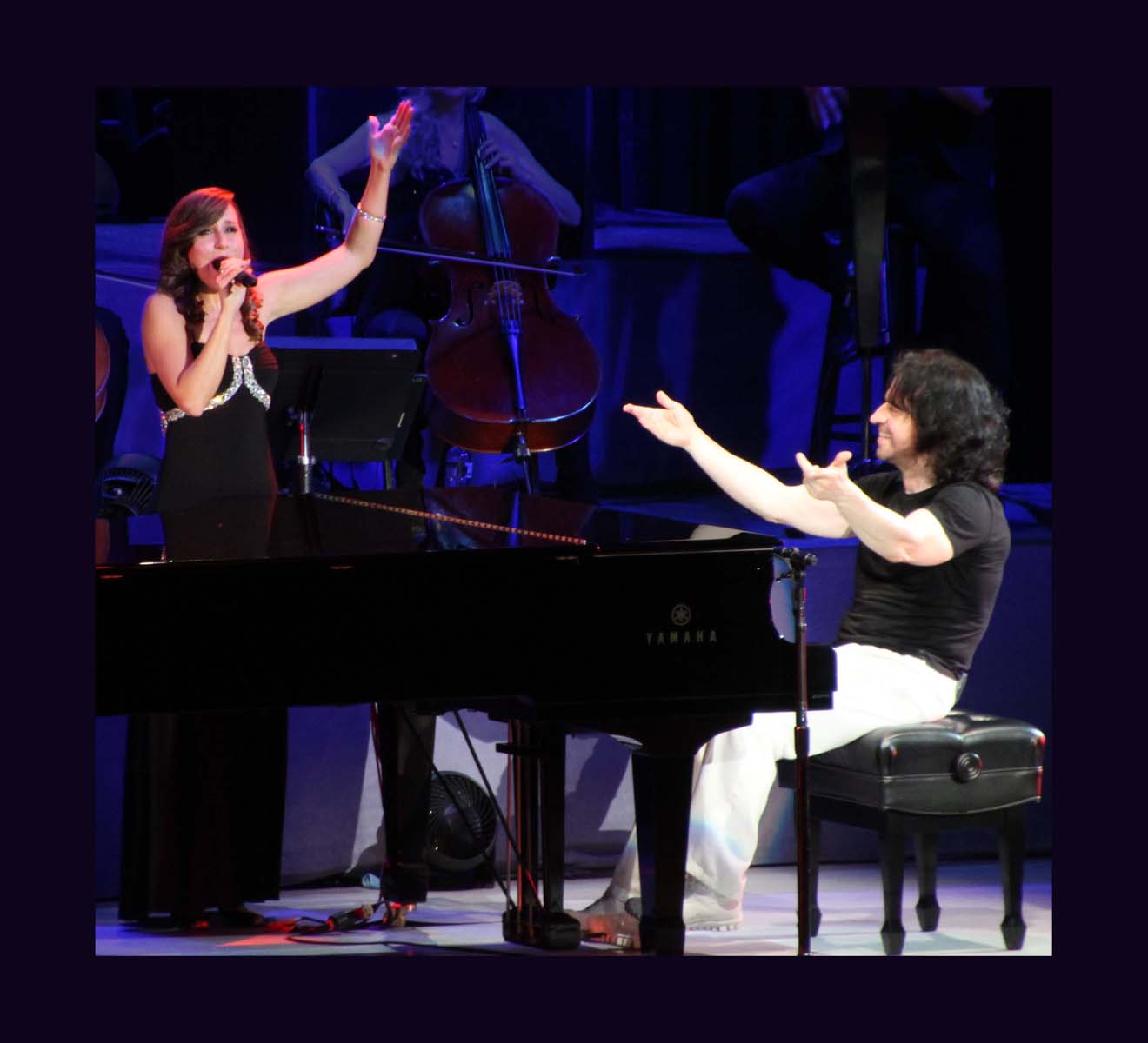 Image of Lauren Jelencovich singing onstage, with Yanni seated at piano with arms outstretched. Location unknown. Date is believed to be 2012.